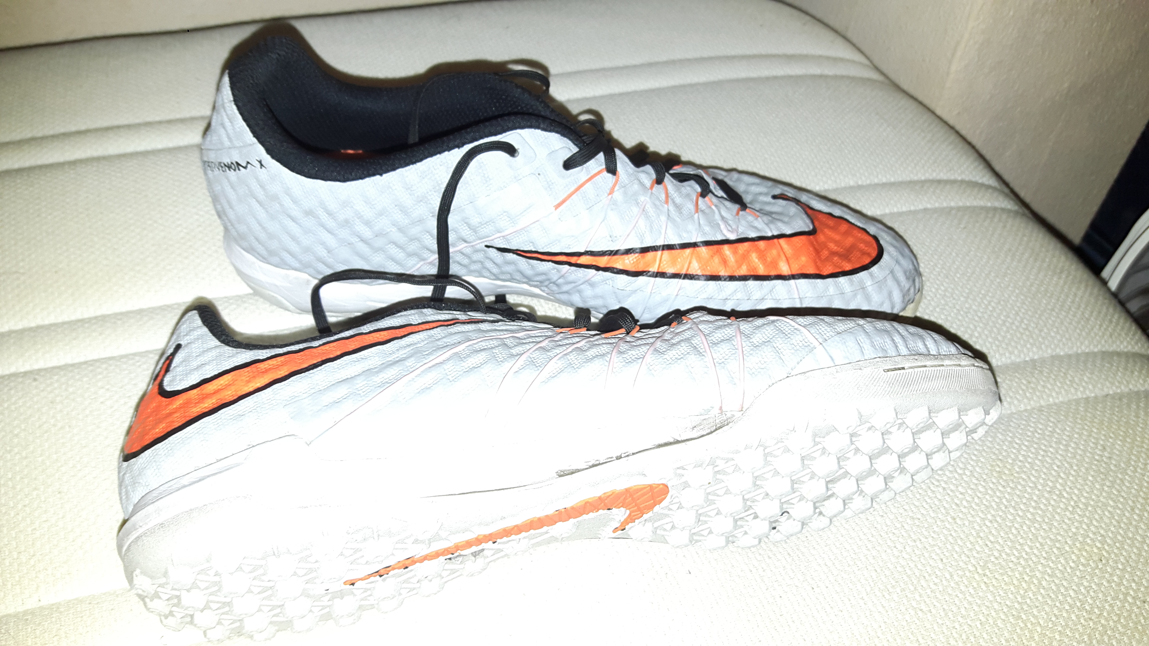 The Turf (TF) model of the HypervenomX Proximo. Plenty of gum rubber studs for traction on turf.